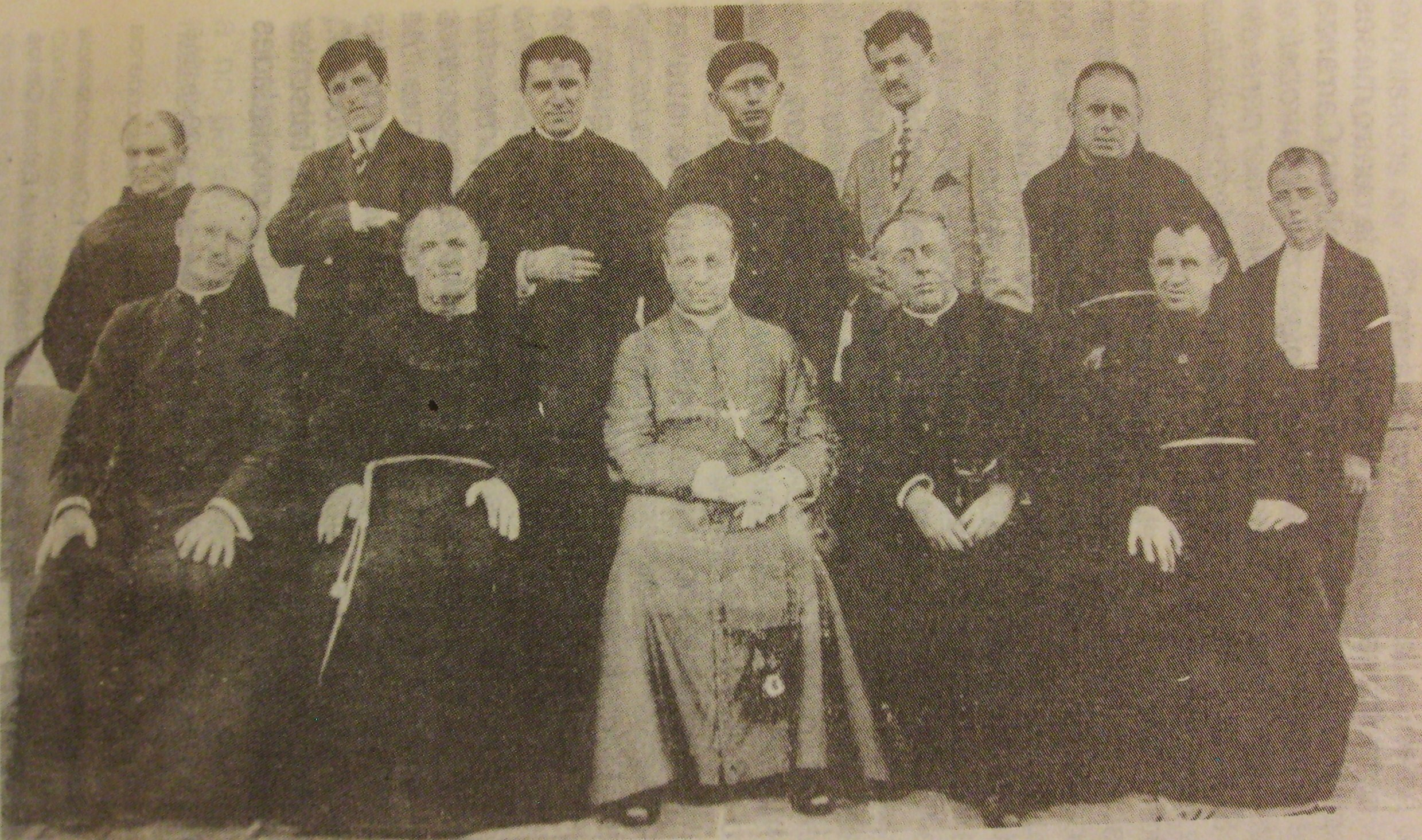 Archbishop Martín Tritschler exiled in Habana, Cuba, 1916, where he asked the Carranza goverment to stop the looting of the diocese by revolutionary forces